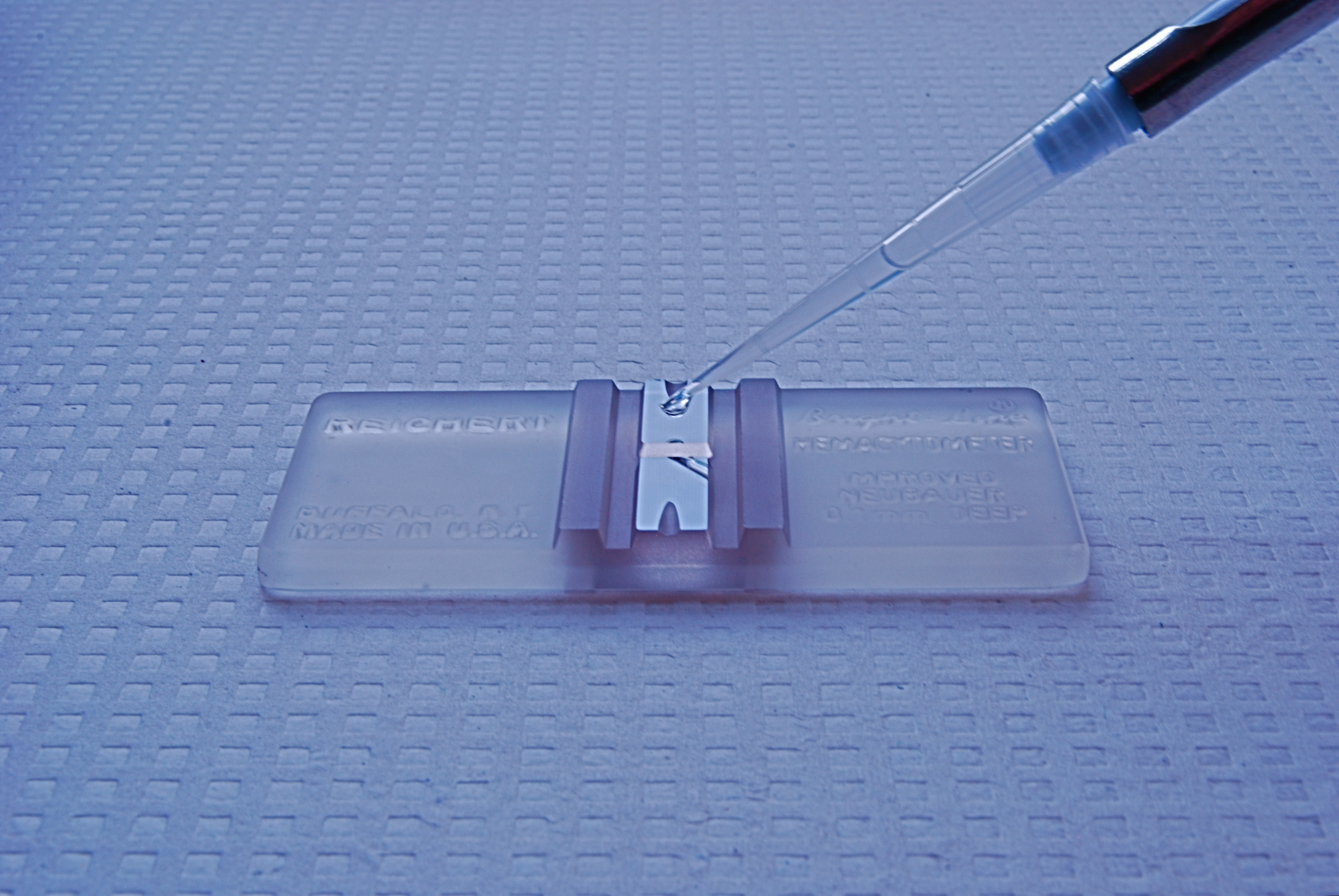 This is a hemocytometer, a counting chamber used to enumerate anything from blood cells, sperm to fungal spores, which is what I use it for. Lots of hours logged on this one.